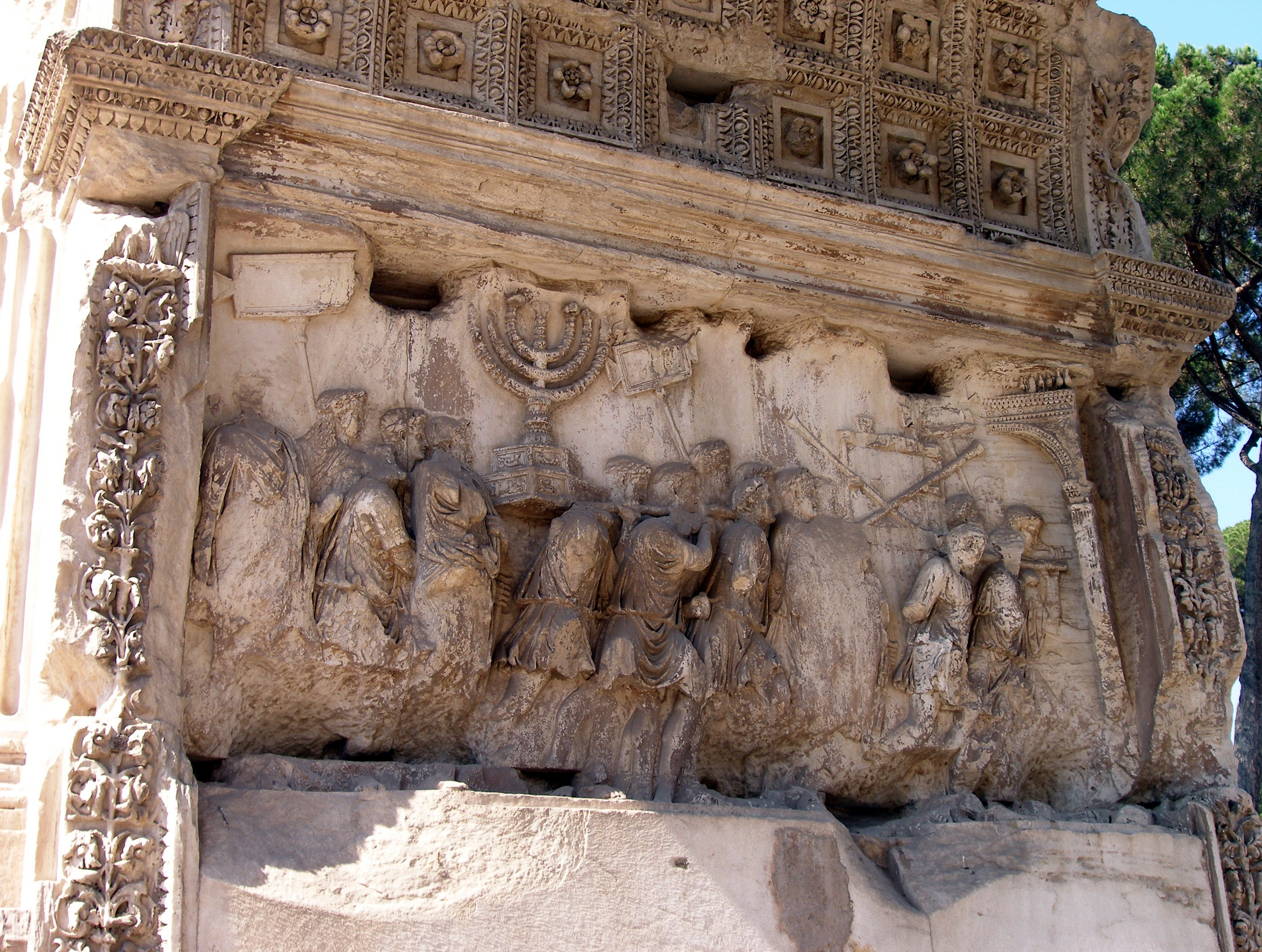 Rome, Arch of Titus, triumphal procession